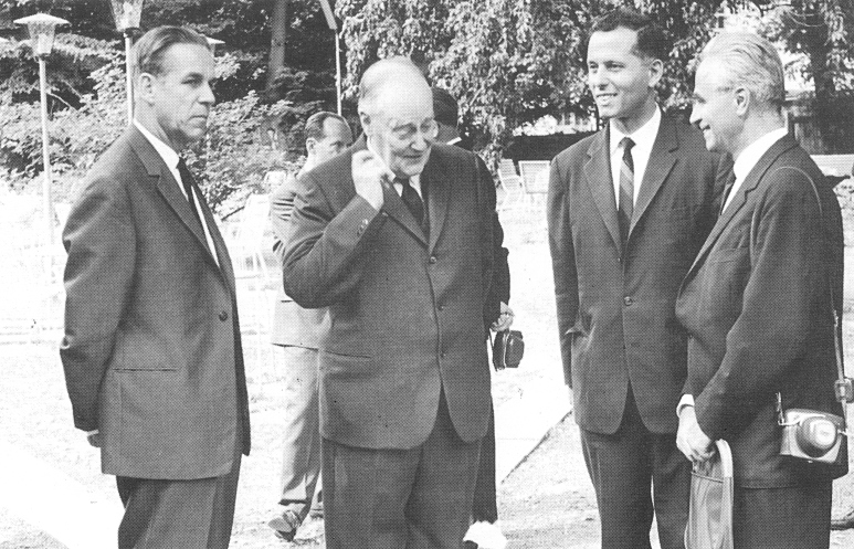 Photograph of European theologians meeting in Sweden, Båstad. From left to right: Mikko Juva (1918–2004) from Finland, Anders Nygren (1890–1978) from Sweden, André Appel (1921–2007) from France, and Károly Prőhle (1911–2005) from Hungary